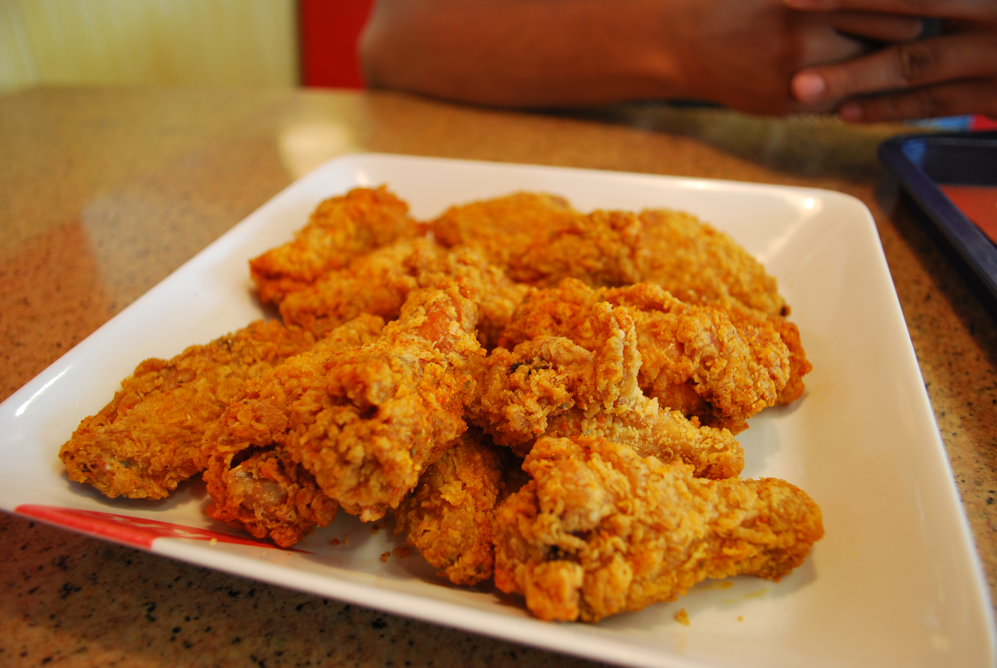 A plate of hot wings served at a KFC outlet in India.